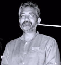 S S Rajamouli at Trailer launch of the film 'Baahubali'